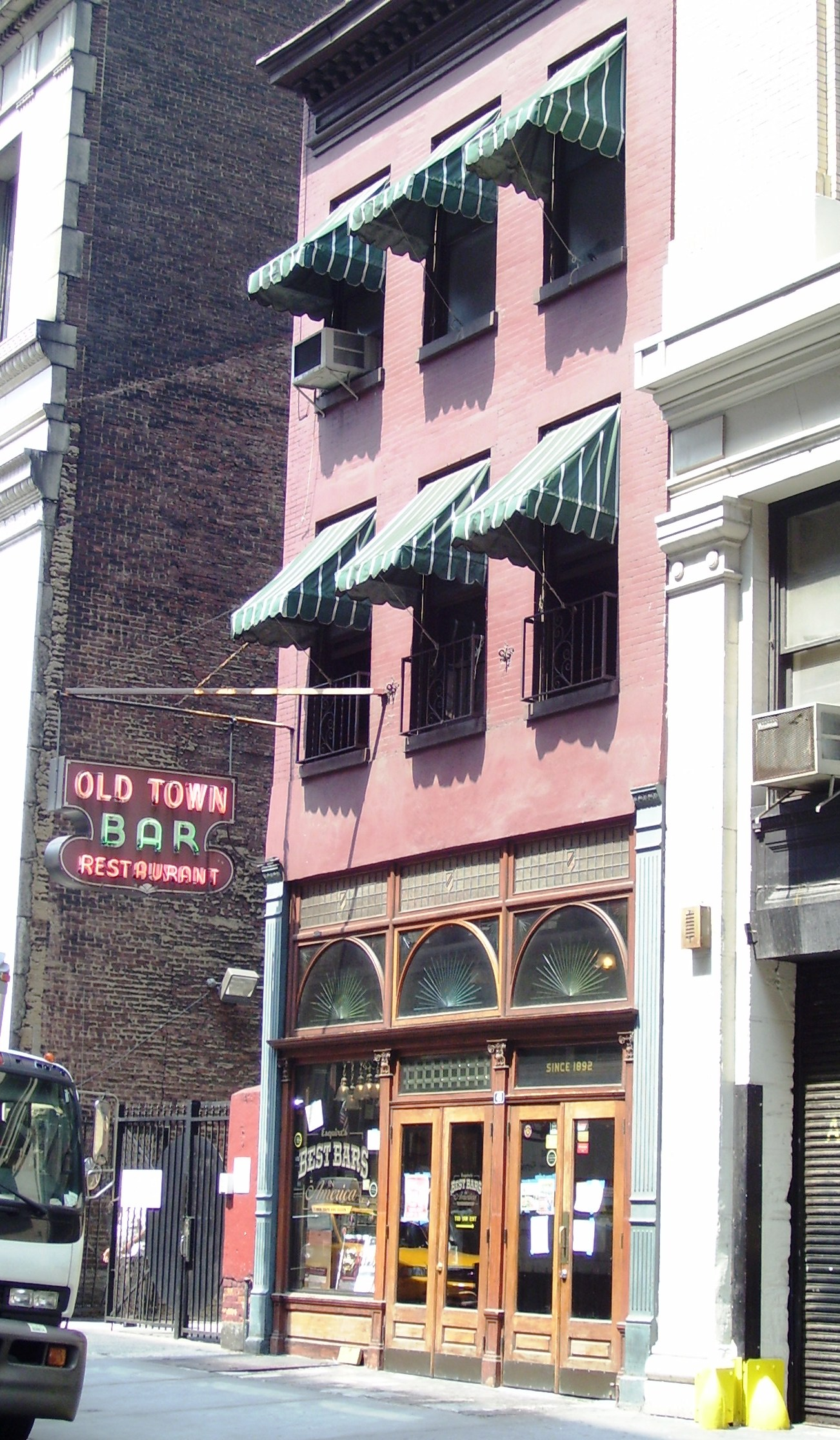 The Old Town Bar and Restaurant, at 45 East 18th Street, between Broadway and Park Avenue South in Manhattan, New York City, claims to have been in operation since 1892.